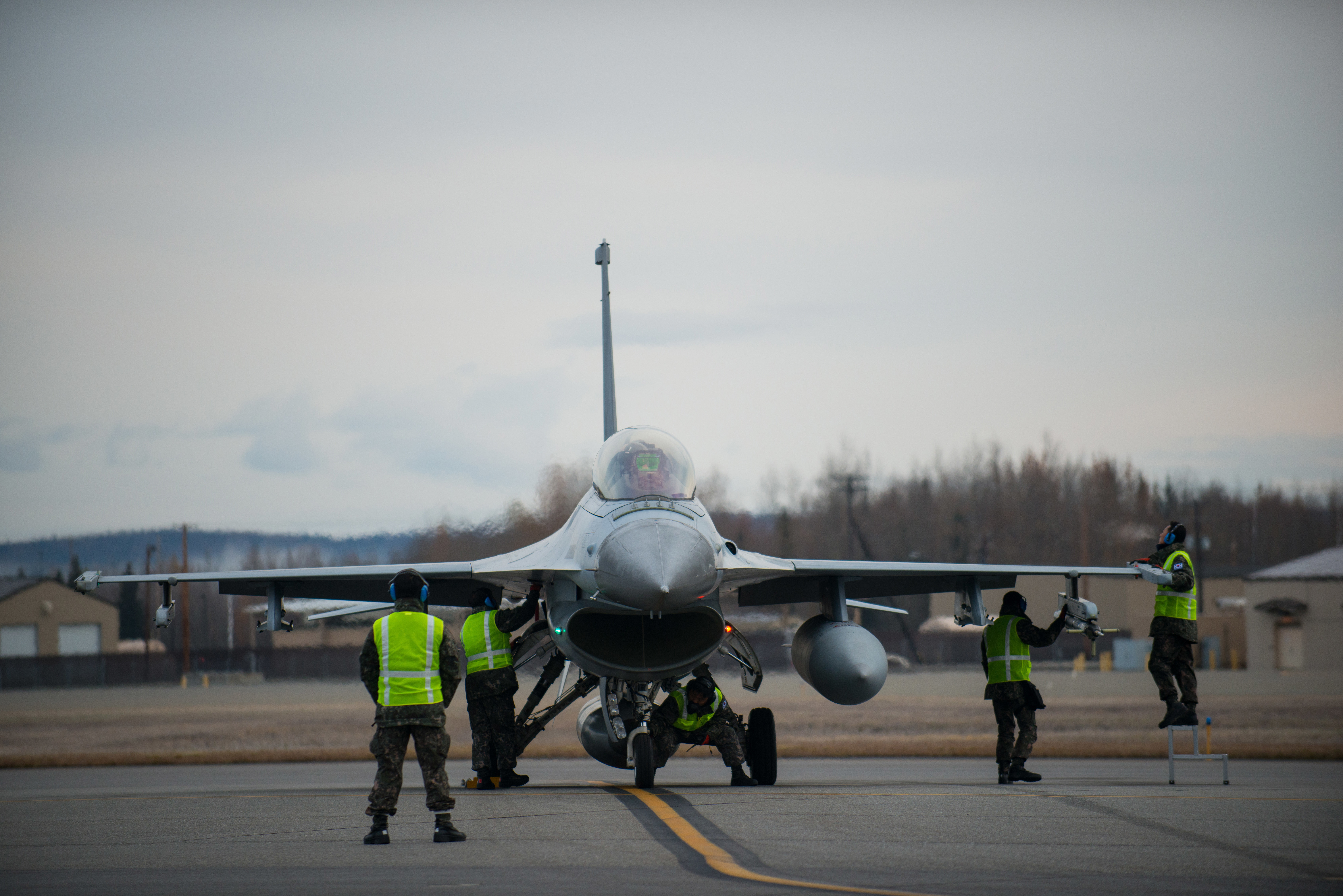 Republic of Korea airmen perform last minute checks on an F-16 Fighting Falcon fighter aircraft shortly before it launches at Eielson Air Force Base, Alaska, Oct. 3, 2014, during Red Flag-Alaska 15-1. RF-A is a series of Pacific Air Forces commander-directed field training exercises for U.S. and partner nation forces, providing combined offensive counter-air, interdiction, close air support and large force employment training in a simulated combat environment. (U.S. Air Force photo by Tech. Sgt. Joseph Swafford Jr./Released)